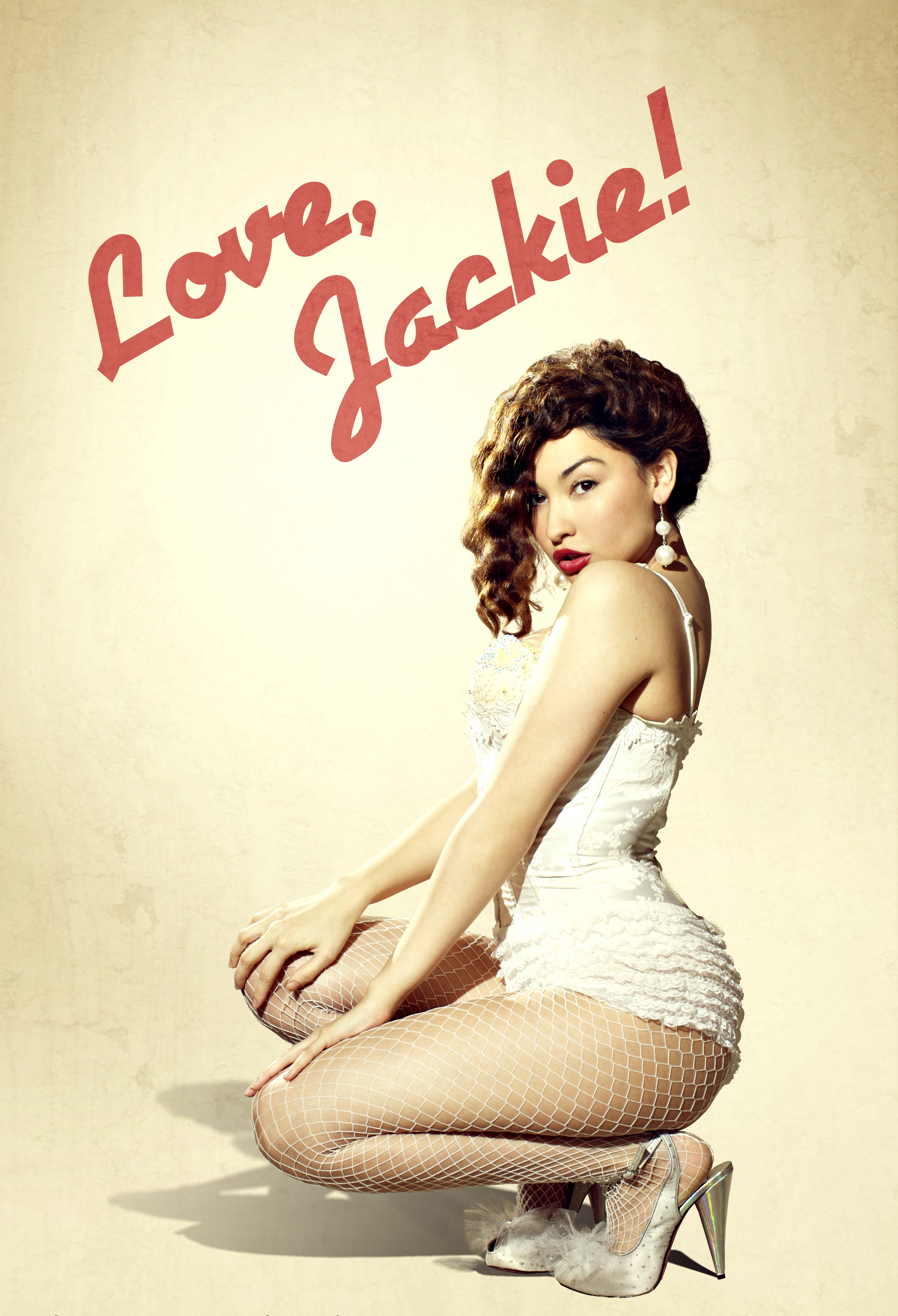 Singer Jackie Martinez. Lit with (2) Canon Speedlite 580EX and triggered via PocketWizard. The primary strobe is about 5 ft to my left. The second strobe is behind her, 45° on the left side, set to 70mm. Contrary to what many believe, this was not shot in a studio, but her living room :)